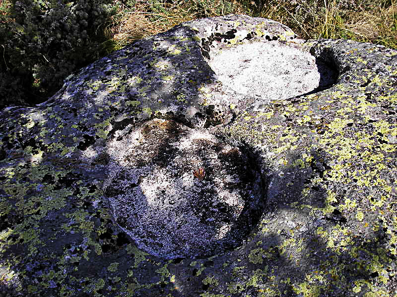 Carev peak Rila megalithos